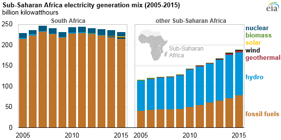 According to EIA’s international electricity statistics, hydroelectric and fossil fuel-powered generation were the top sources of growth between 2005 and 2015 in Sub-Saharan Africa (SSA), defined as the 49 countries fully or partially south of the Sahara Desert. September 27, 2018